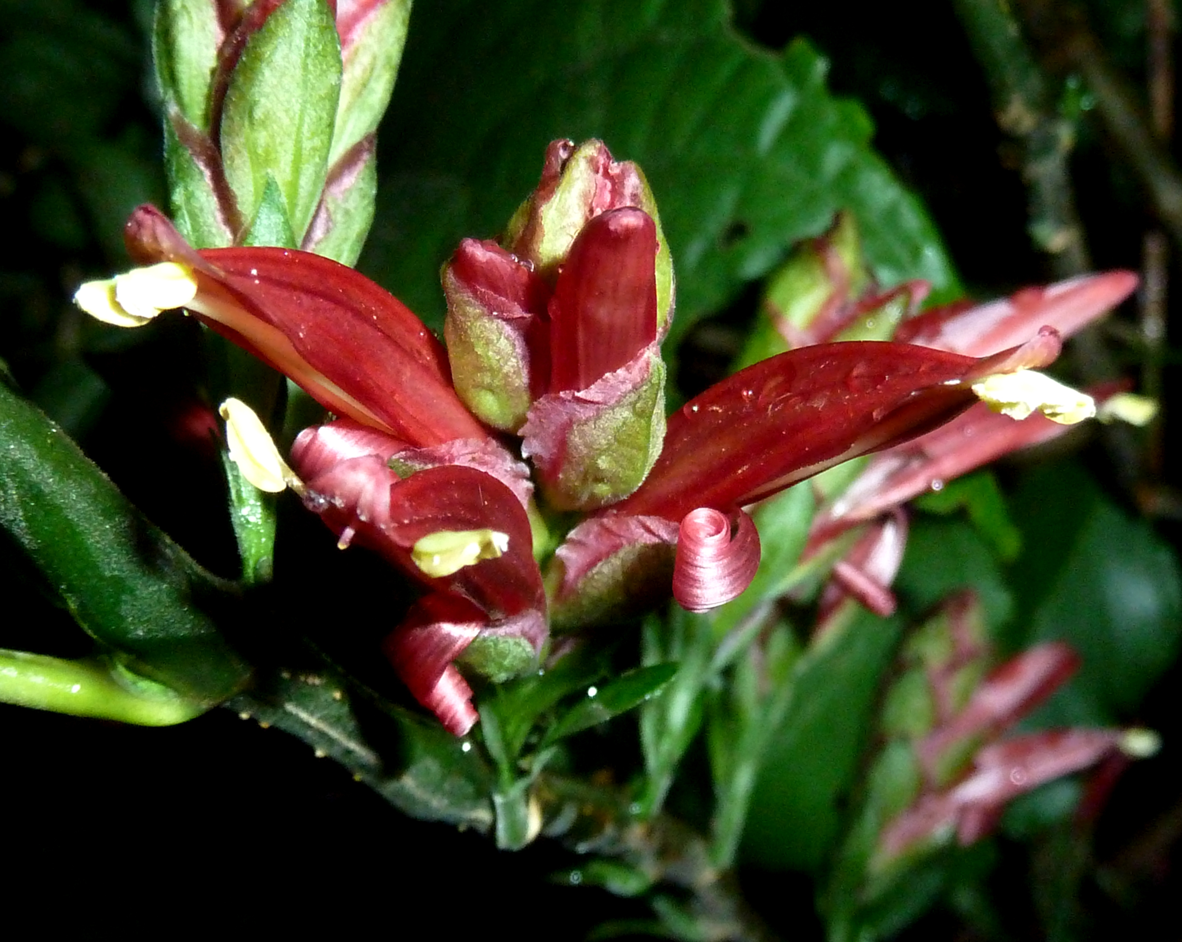 Inflorescence of a Red sunbird bush in a garden in Hillcrest, KwaZulu-Natal